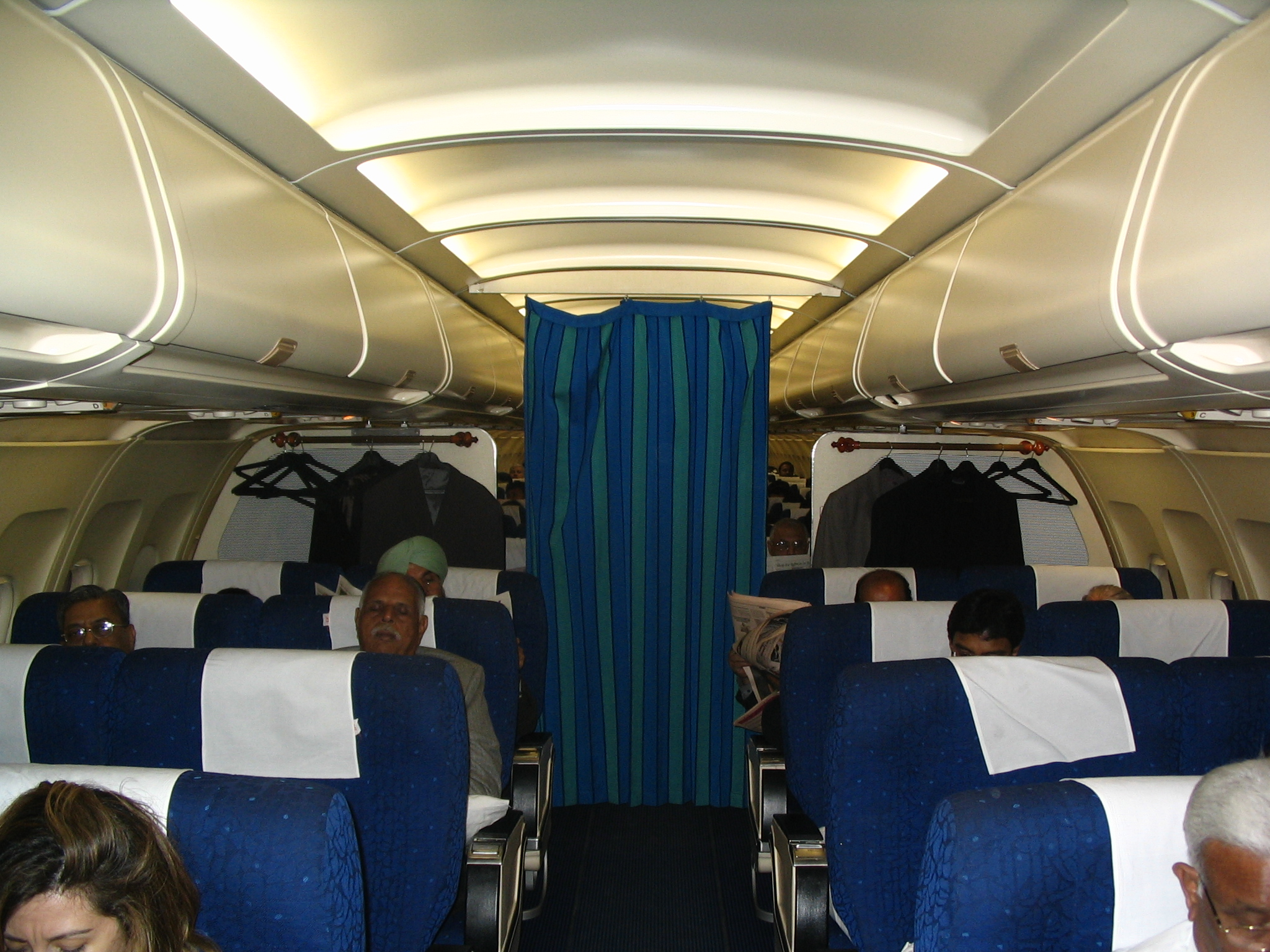 Executive class cabin of an Indian Airbus A320